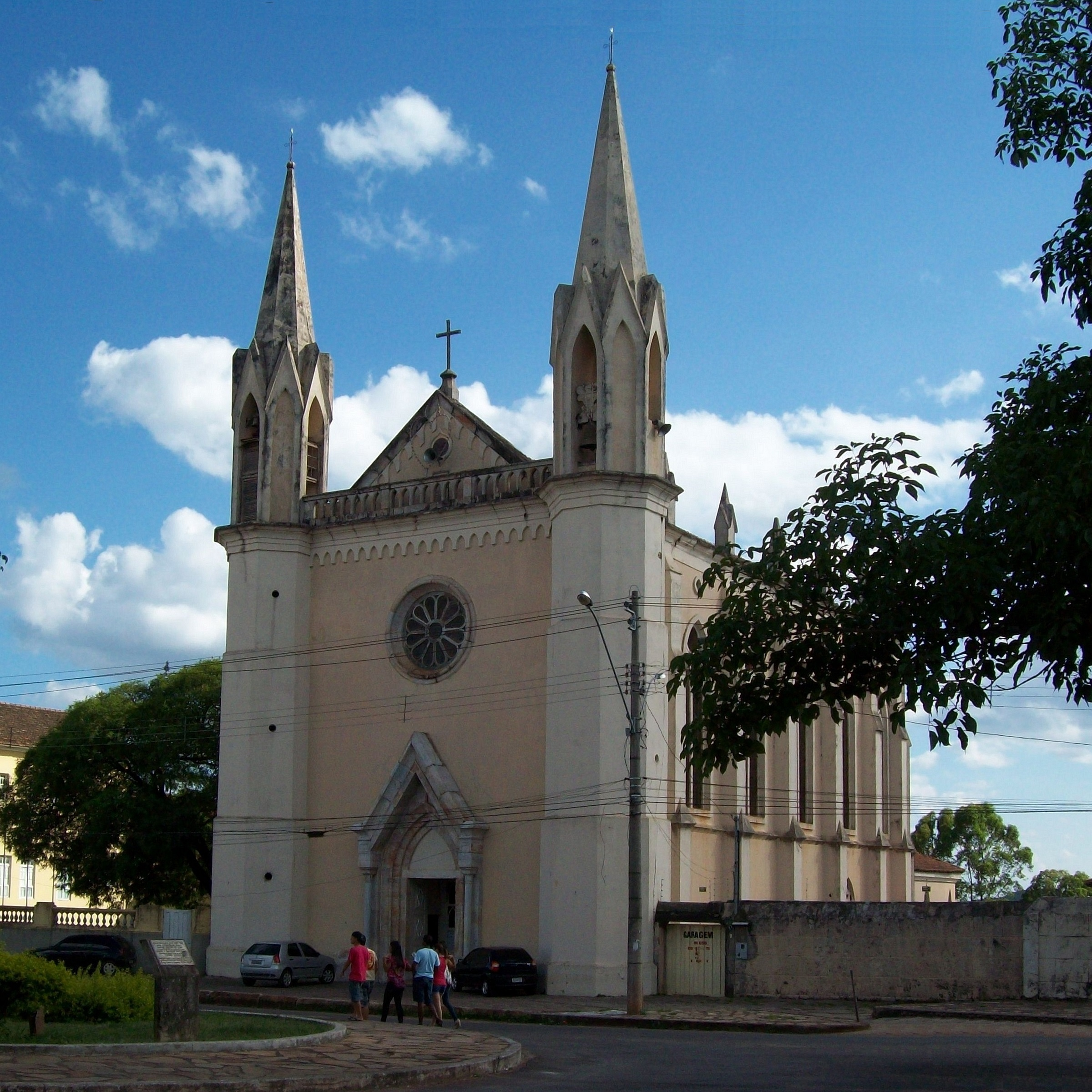 Diamantina MG Brasil - Basílica Sagrado Coração de Jesus